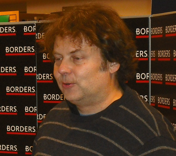 Rich Fulcher from the Mighty Boosh came to Borders Bristol to sign his book.